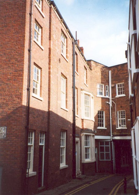 Mr Gissing's House, Thompson's Yard, Westgate, Wakefield. George Gissing (1857-1903) was a novelist, the son of a chemist whose shop was No.60 Westgate, adjoining the house (the passage leads to Westgate).